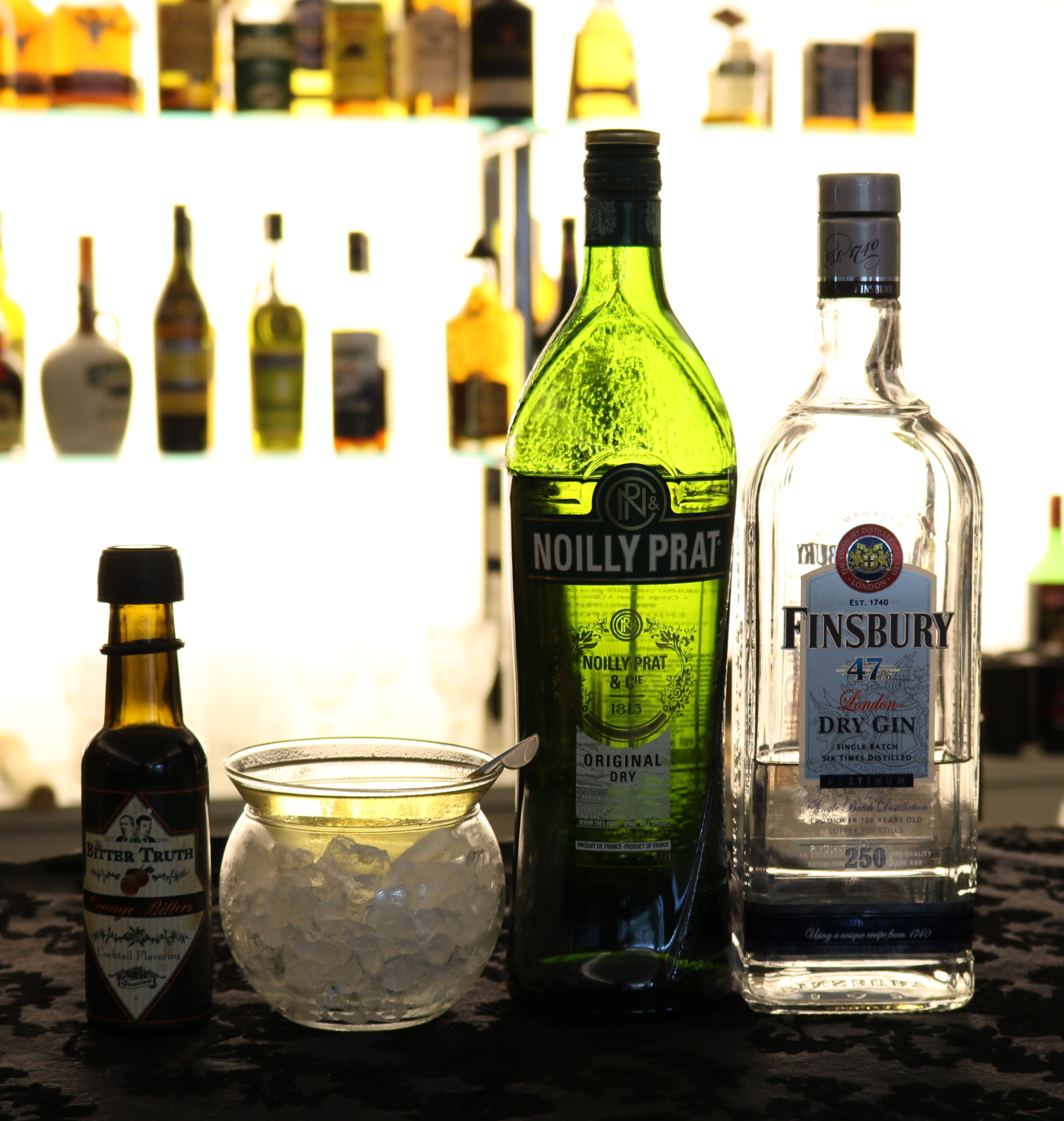 Dry Martini Cocktail in a Martini Chiller with typical ingredients (Gin, French Vermouth)